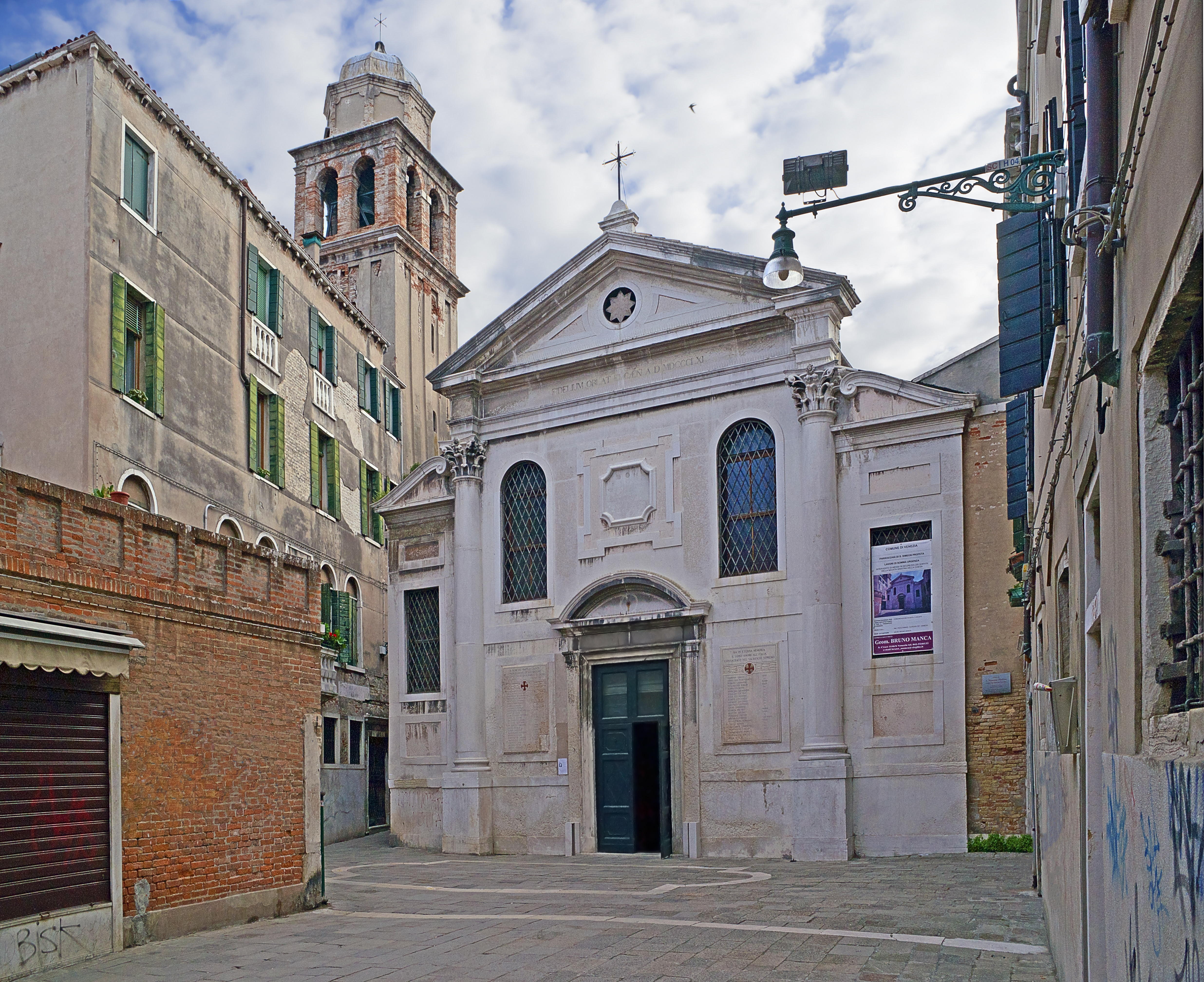 Church San Simeone Profeta in Venice] facade.